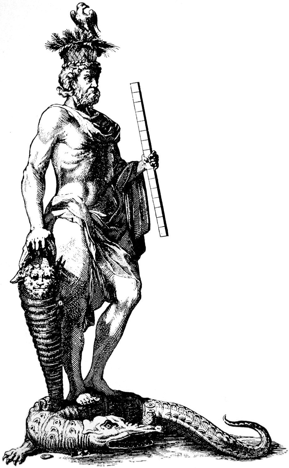 The Alexandrian Serapis.